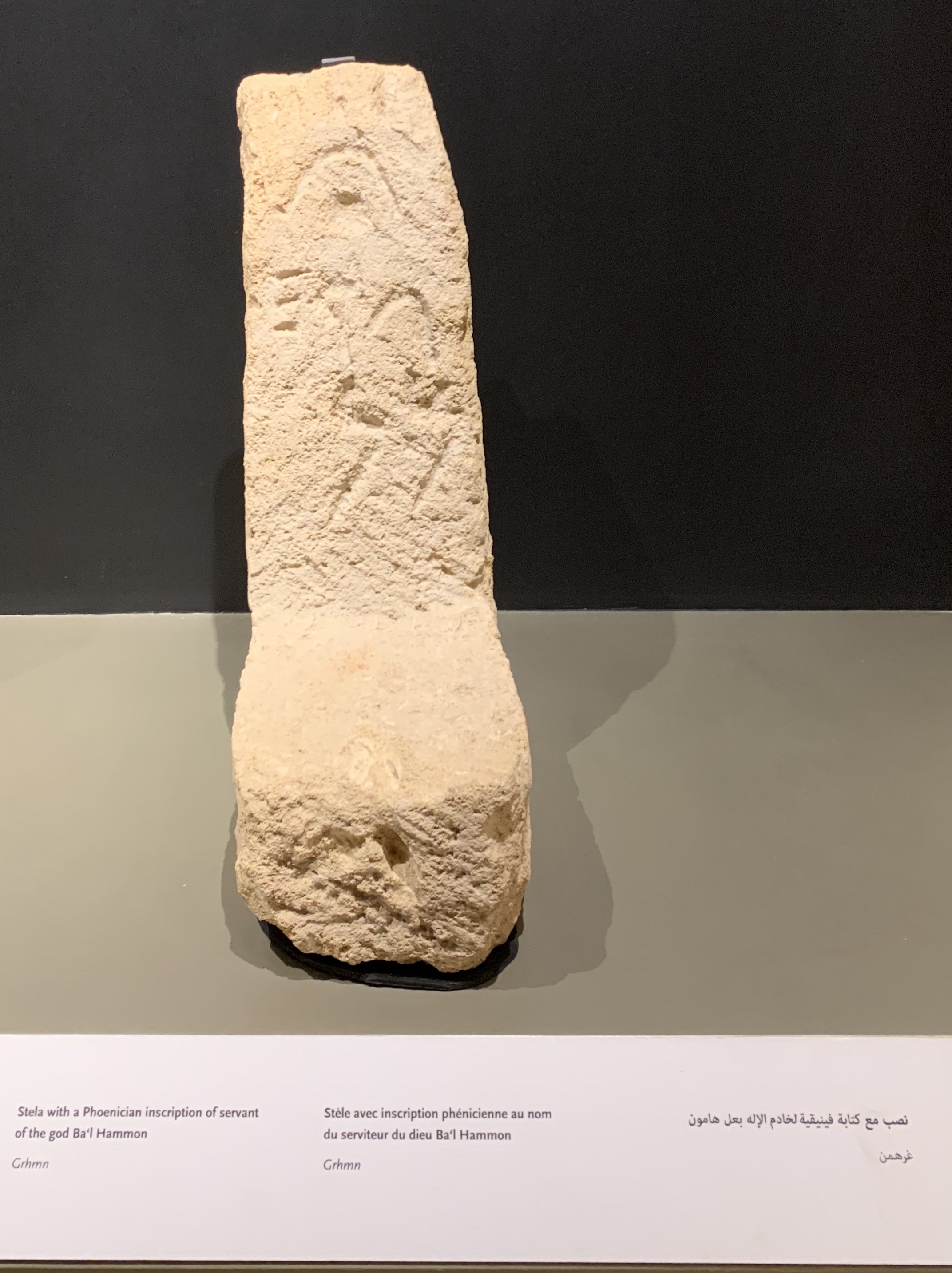 National Museum of Beirut – Tyre stele 1